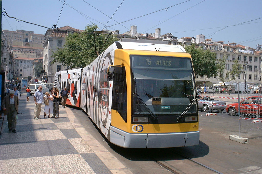 Electric tram in Lisbon, Portugal